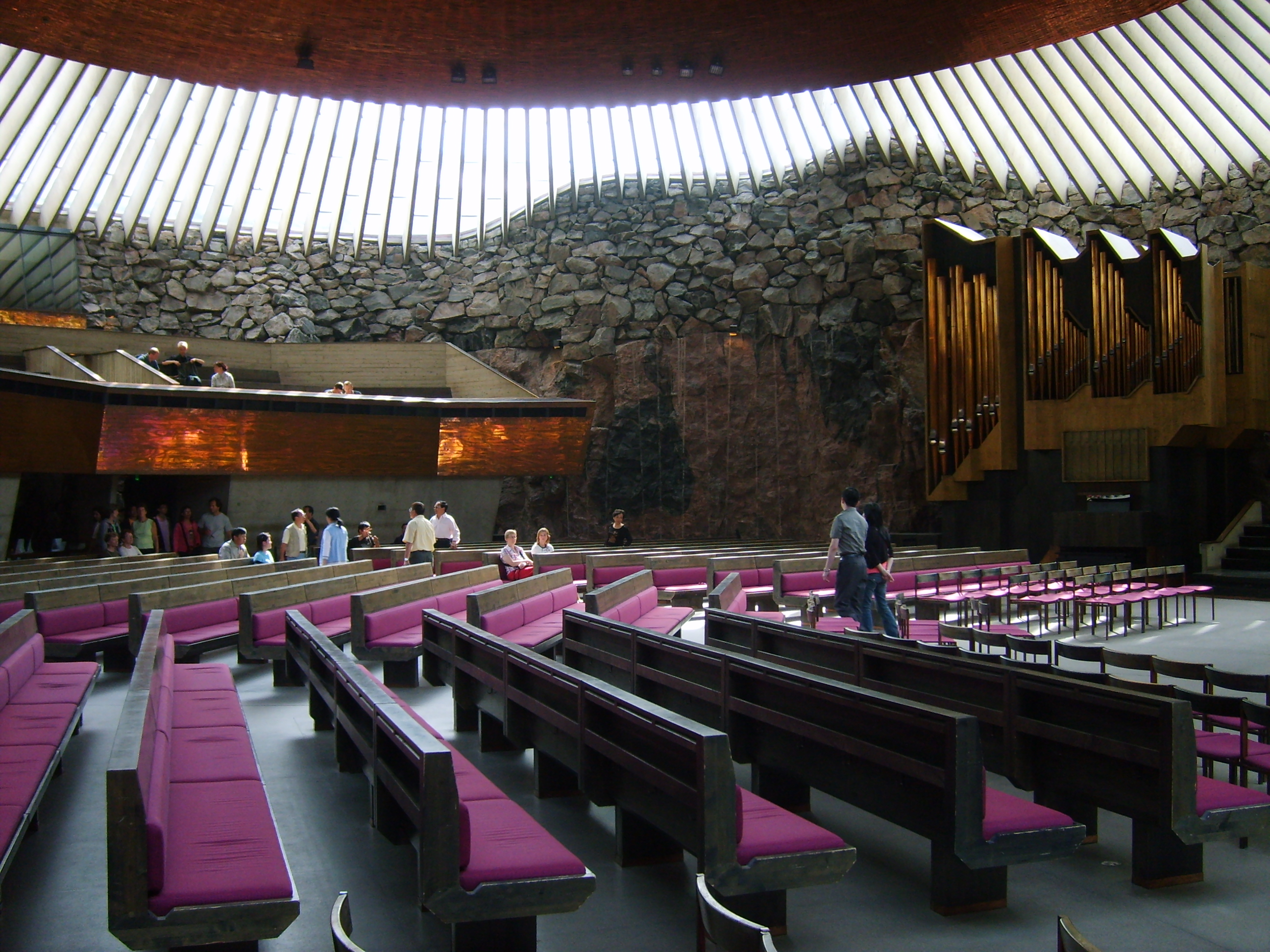 View of the interior of Temppeliaukio Church in Helsinki, from the altar